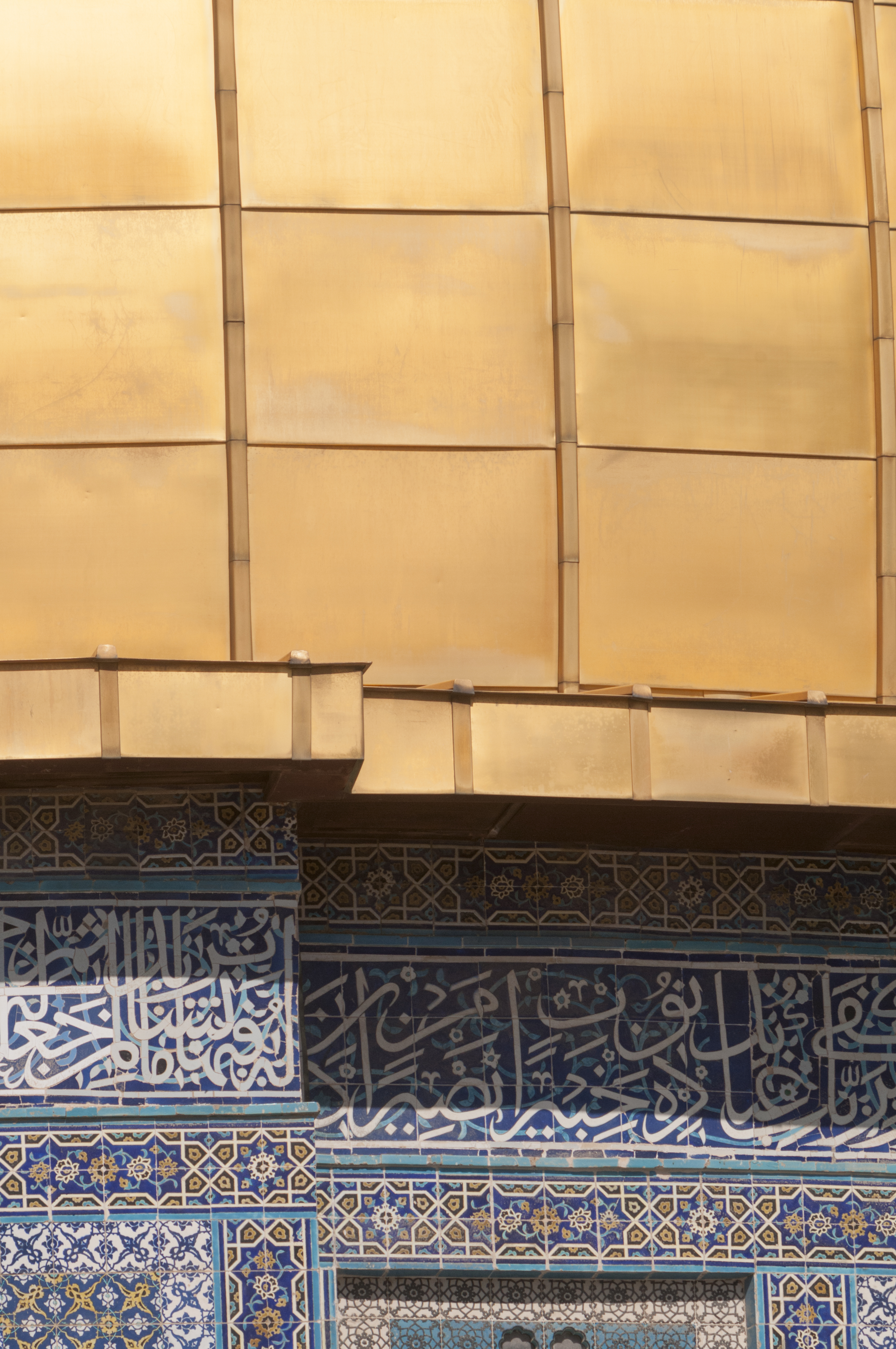 Dome of the Rock on the Temple Mount Jerusalem; Detail picture